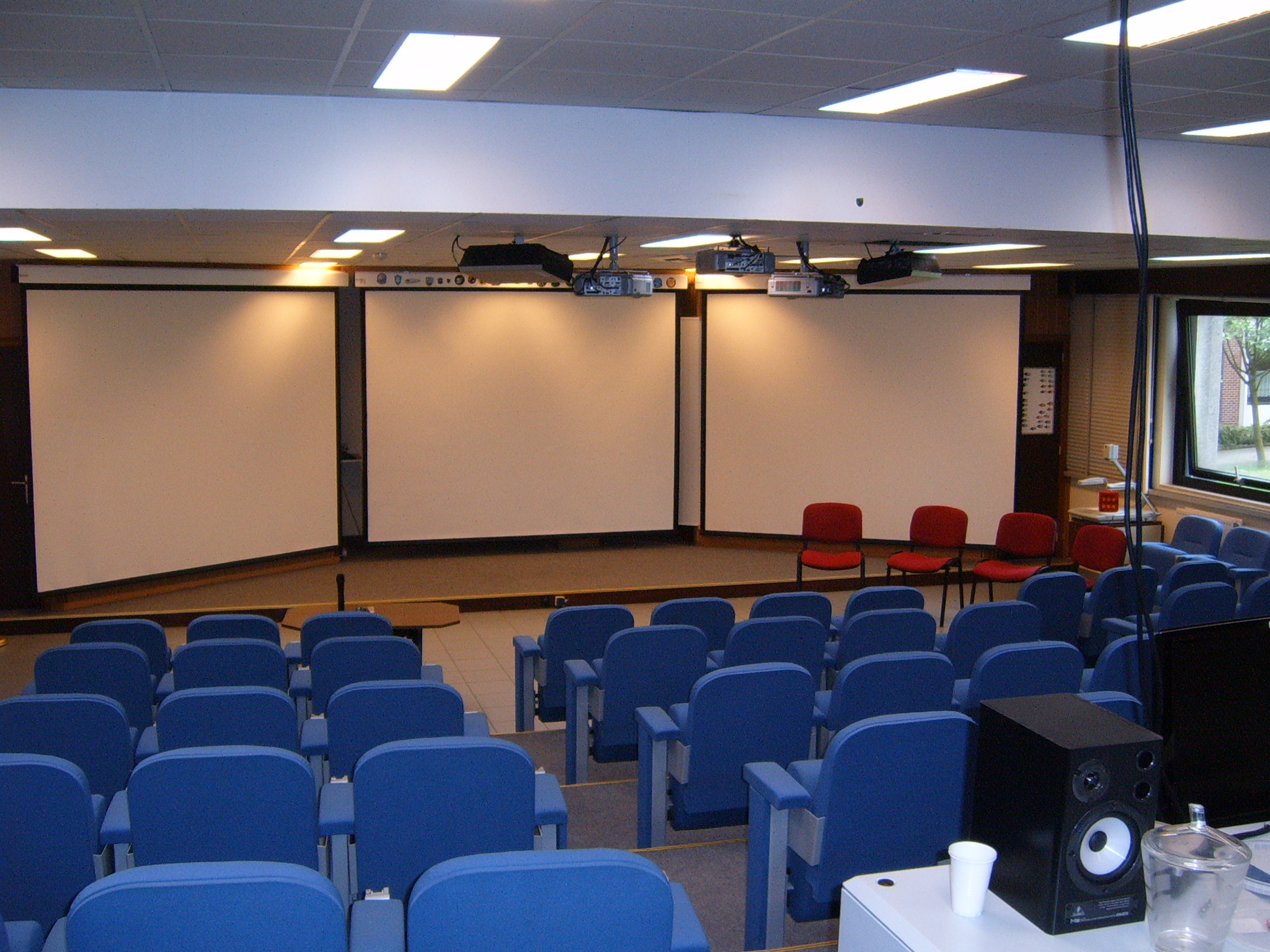 TLP Auditorium